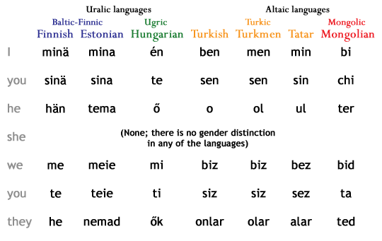 A comparison chart of Finno-Ugric and Turkic personal pronouns.